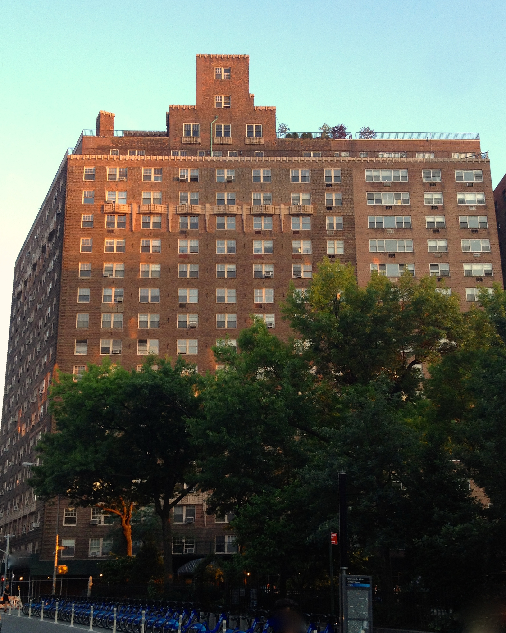 2 Horatio Street, West Village in Manhattan, NYC Summer from the North